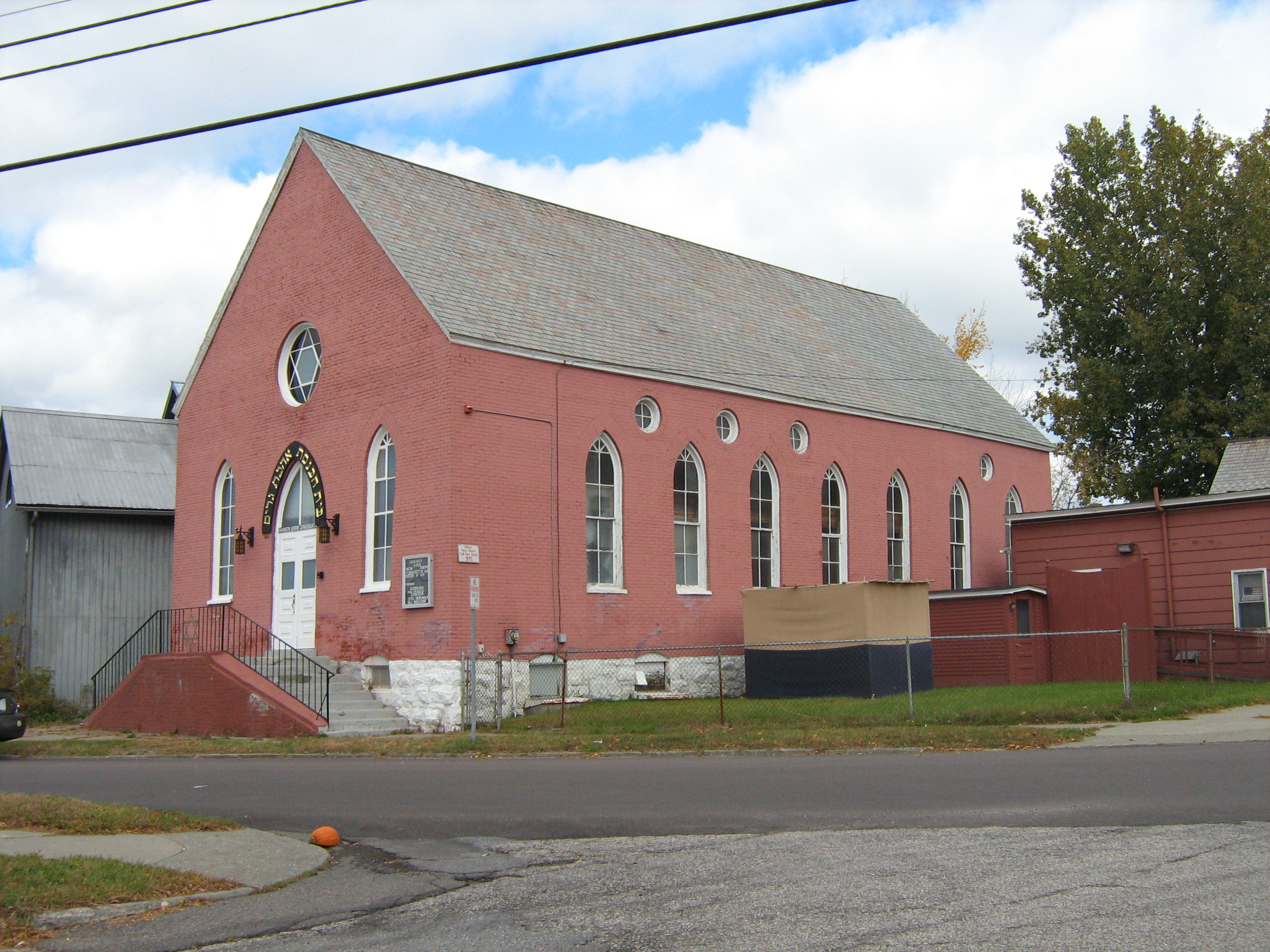 Old Ohavi Zedek Synagogue in Burlington, Vermont. Oldest synagogue in Vermont, one of the oldest in the US. Listed on the NRHP.